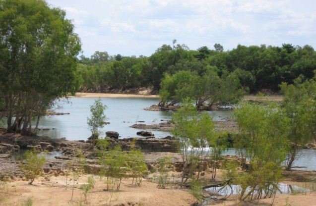 Mitchell River (from Kowanyama) during November 2008.